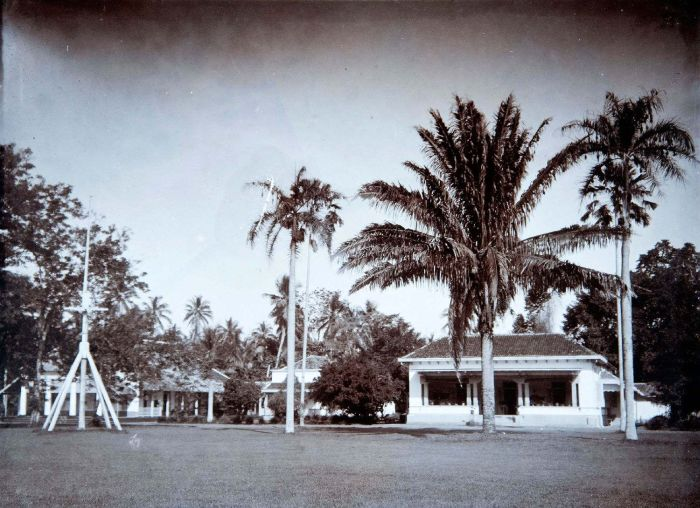 The house of the 'assistent-resident' in Rangkasbitung